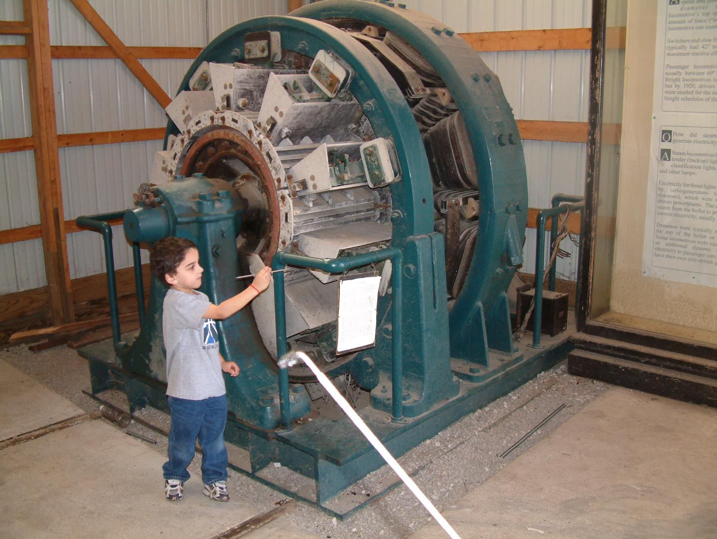 This picture shows a rotary converter from (Illinois Railway Museum). This rotary converter converts AC to low voltage (600V) DC to power train and streetcar engines. I, Igor Chudov, made this picture myself and am releasing it under GFDL. More pictures of this converter and complete explanation are available at